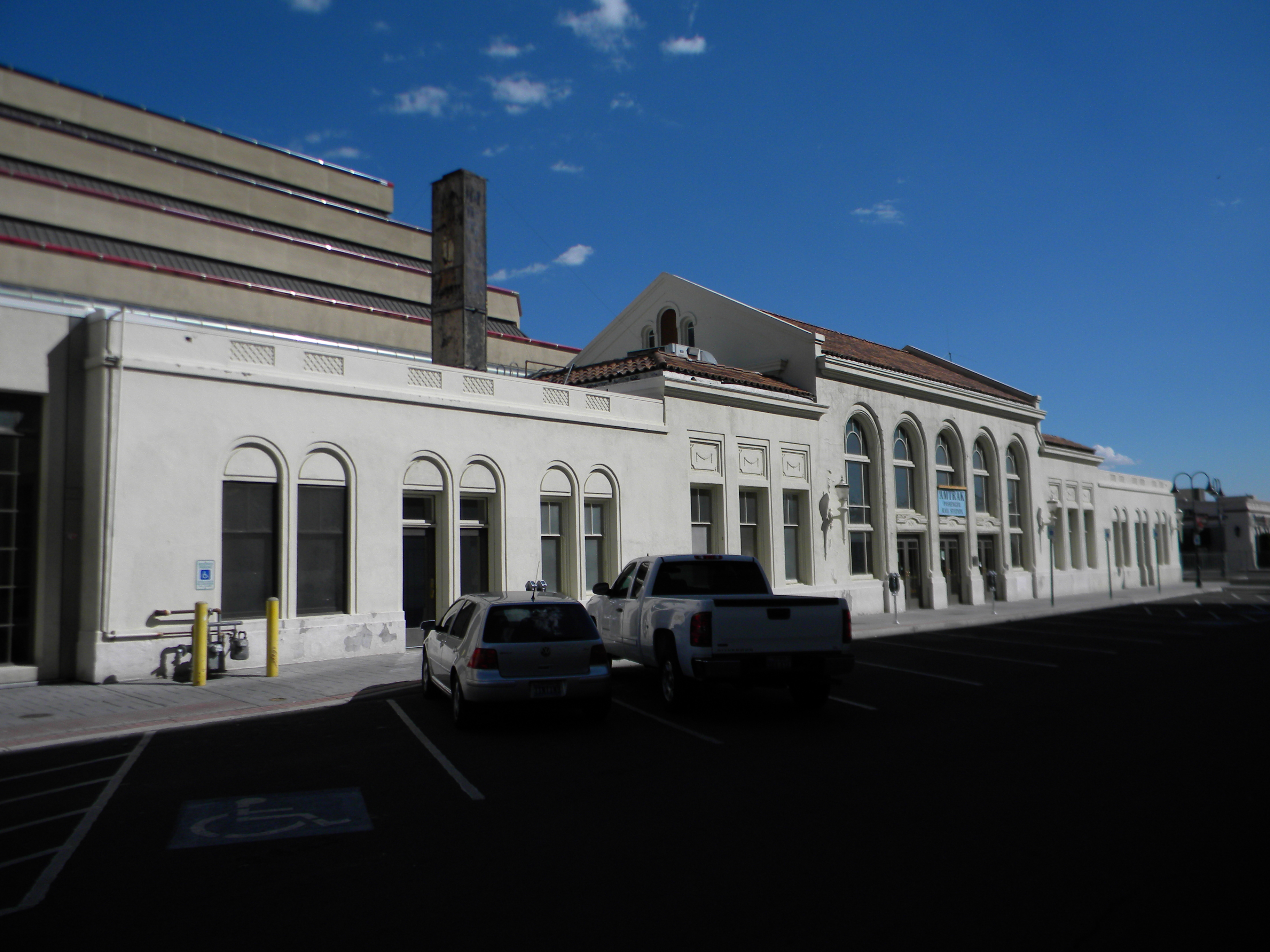 Reno Southern Pacific Railroad Depot Site portion depicted is the historic end of a longer structure that also contains a more modern addition.